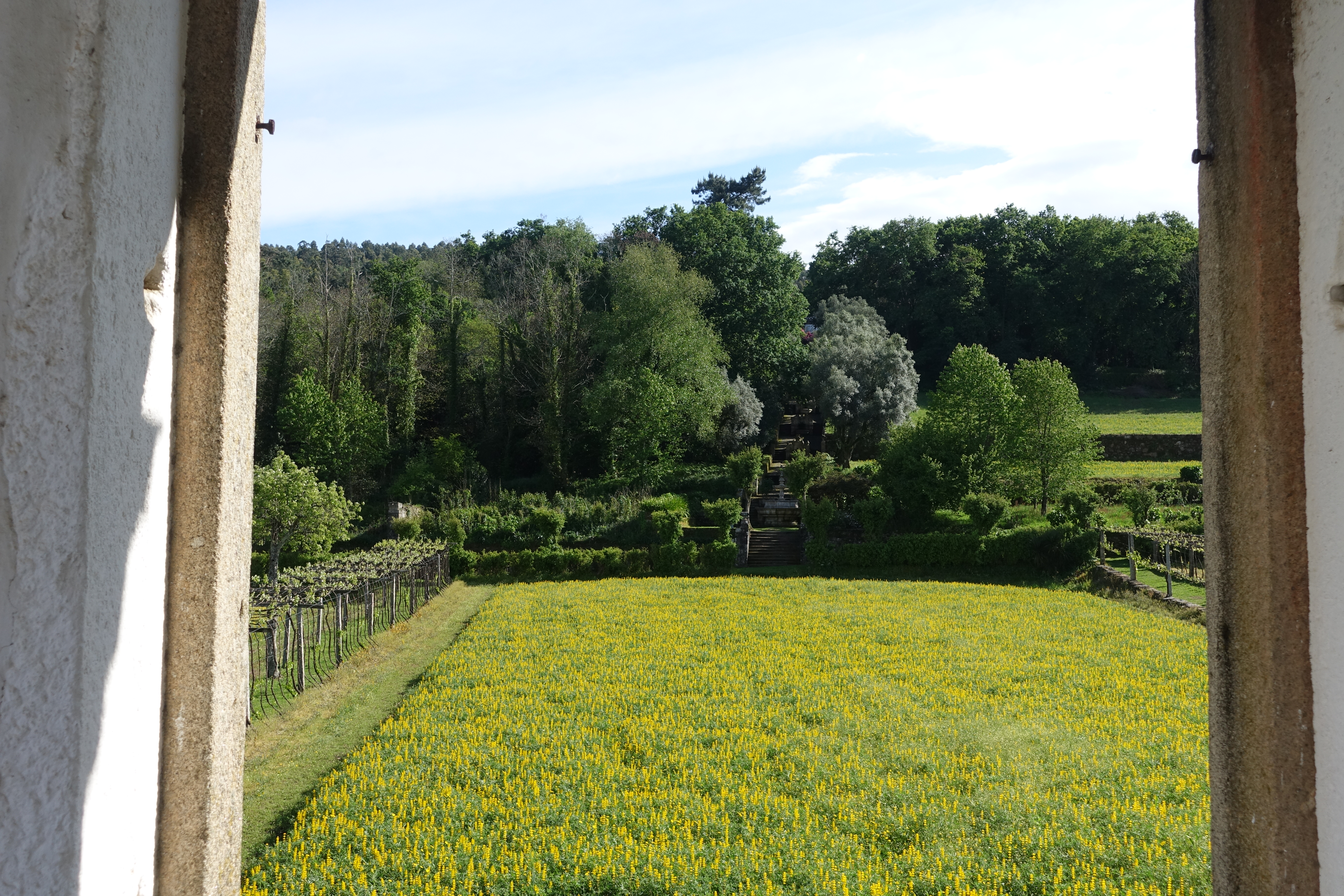 Mosteiro de Tibães, Braga, Portugal.